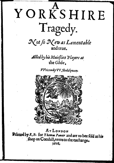 Title page of the quarto publication of A Yorkshire Tragedy, 1608